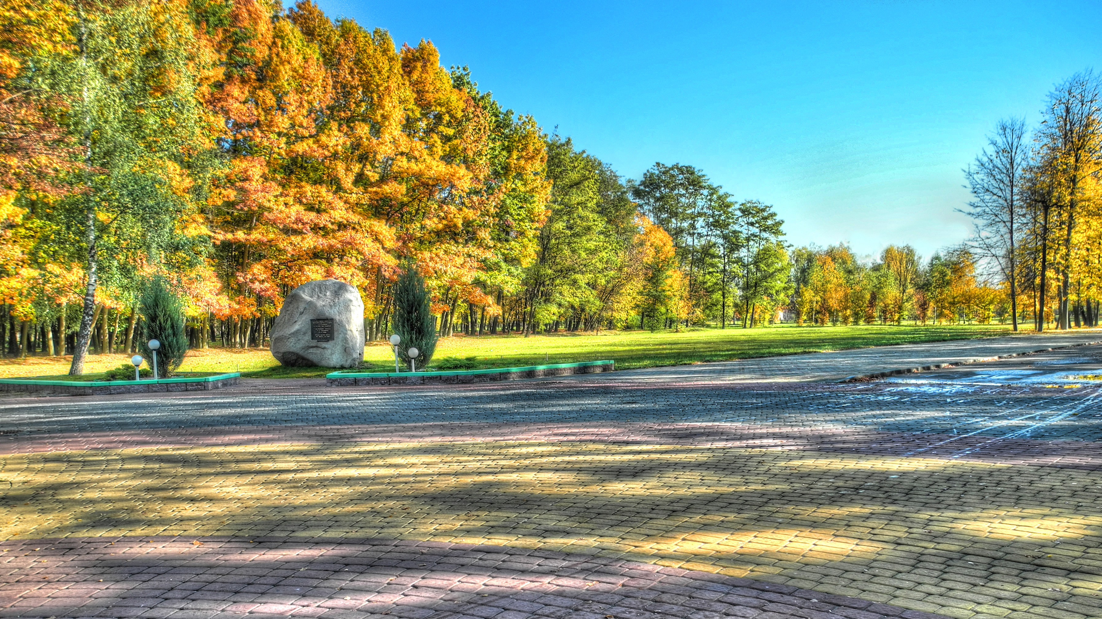 Kobrin_park